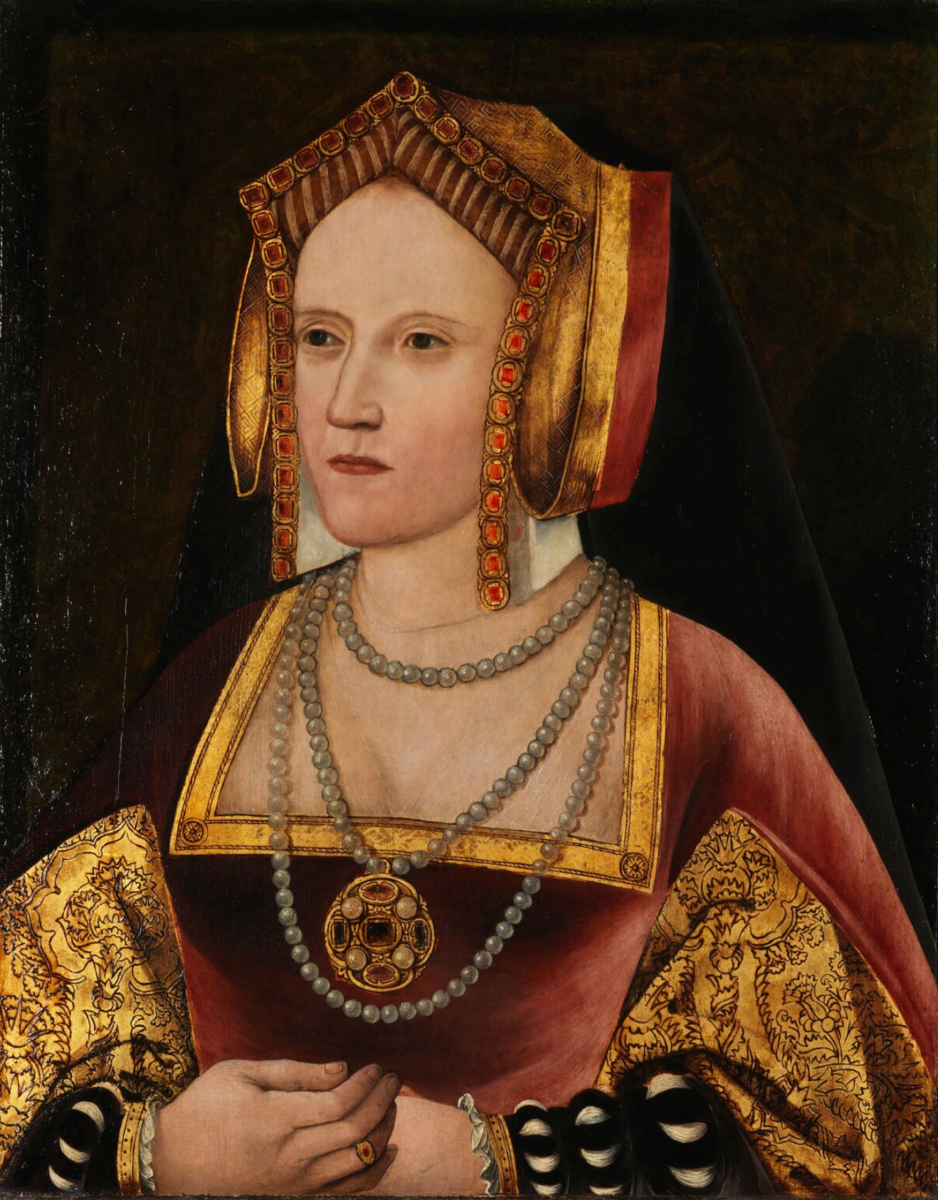 formerly Catherine Parr, in 2012 this was re-identified as Catherine of Aragon